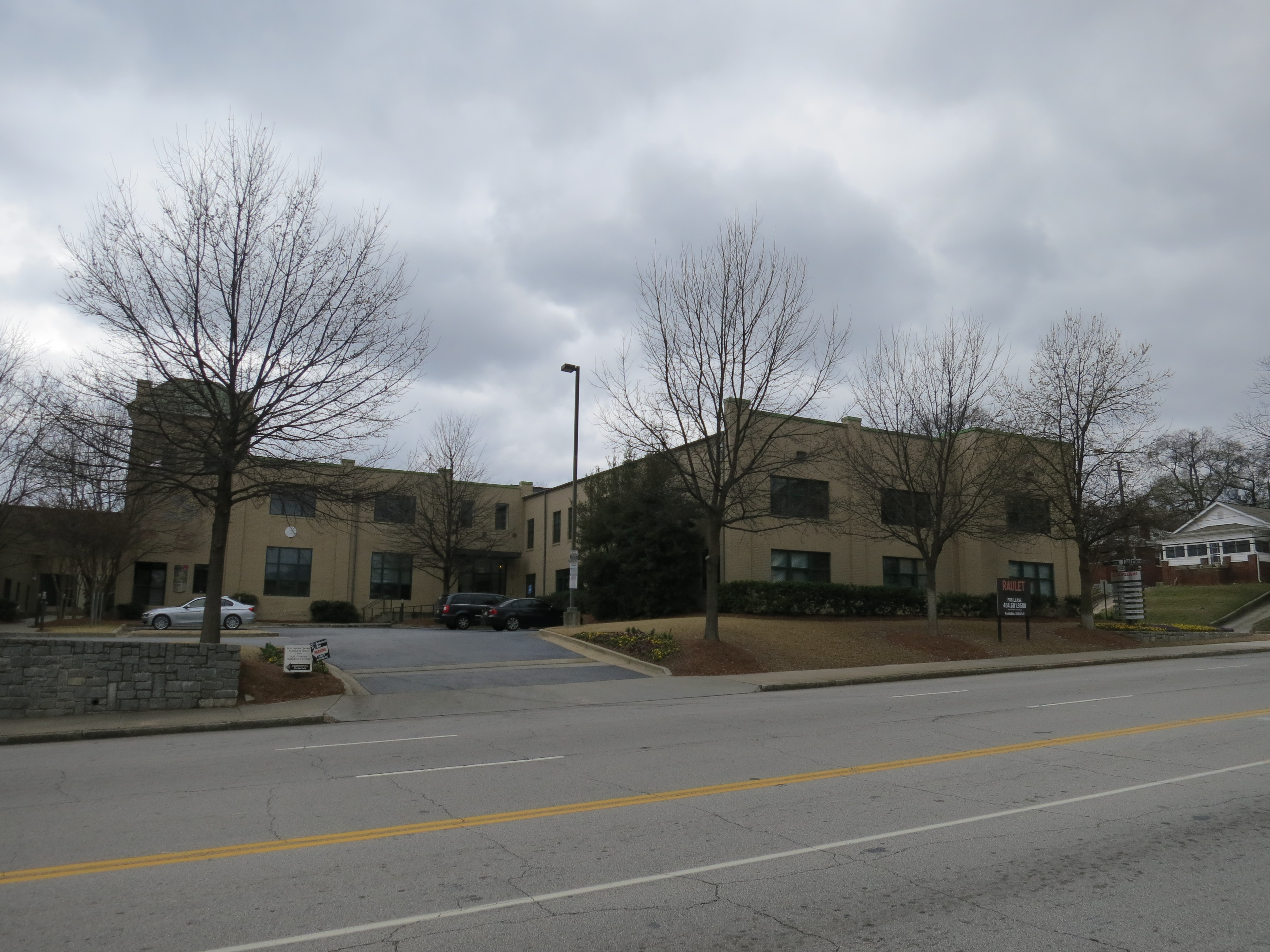 The Southern Dairies Complex as seend from North Avenue facing South